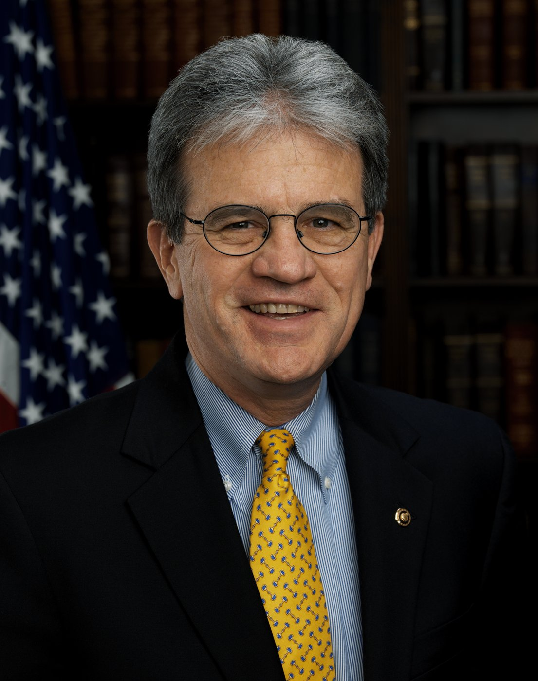 Official portrait of Tom Coburn, U.S. Senator.